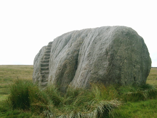 The Great Stone of Fourstones, near to Lowgill, Lancashire, England. It's 4 m high and has 27 m circumference. The other three smaller glacial erratics were allegedly broken up centuries ago for scythe sharpening stones.